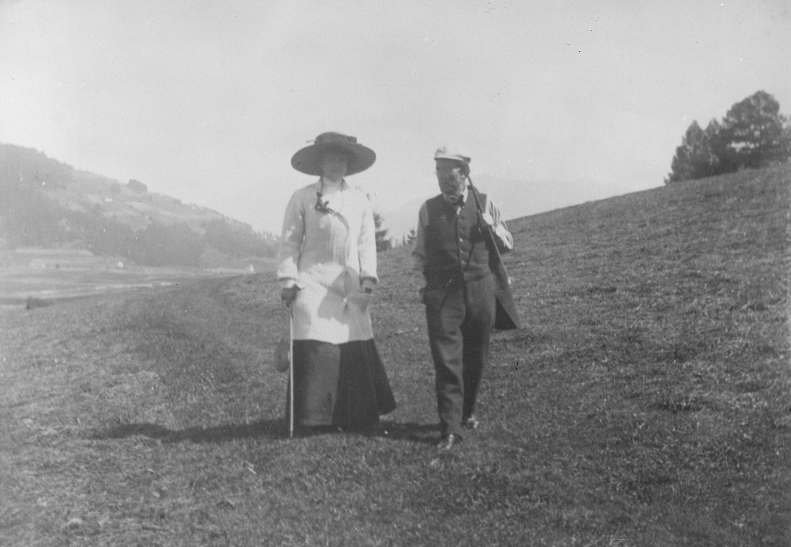 Gustav Mahler (1860–1911), Austrian composer, and his wife Alma (1879–1964) near Toblach.